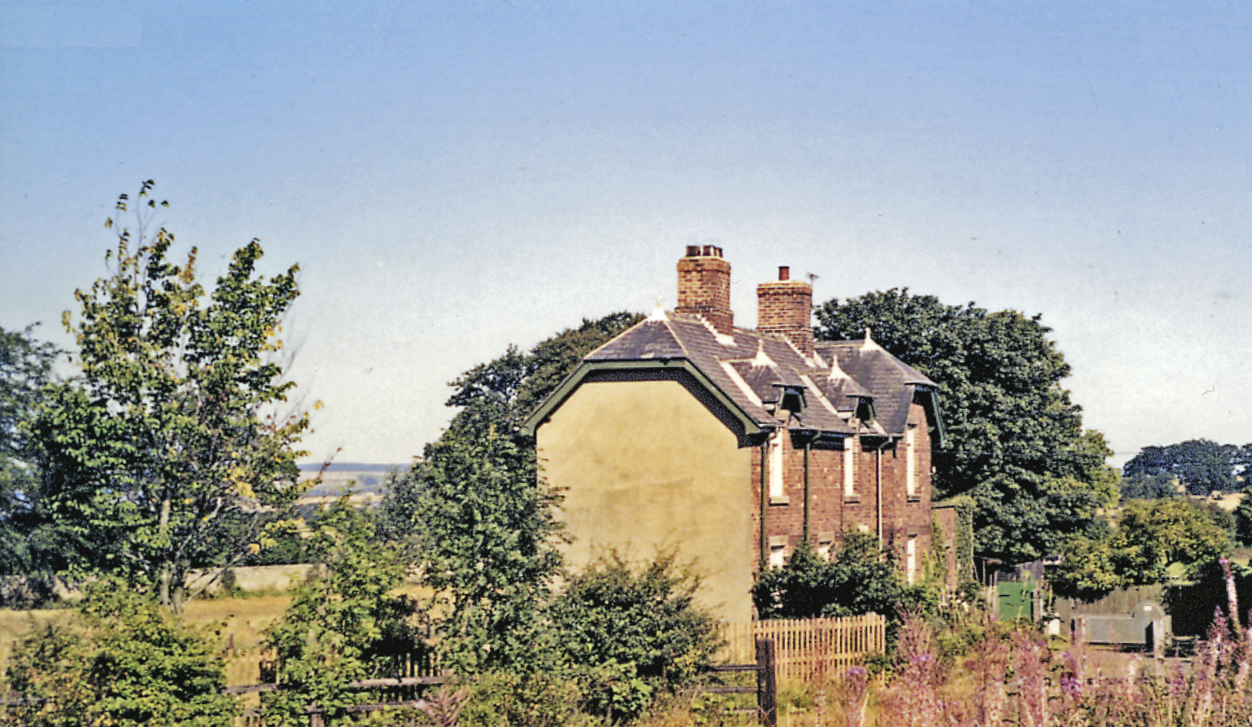 Coundon station (remains), 1991. View eastward, towards Spennymoor and Ferryhill: ex-North Eastern Ferryhill - Bishop Auckland branch, the line running behind the surviving house. The station closed to passengers 4/12/39, when the service was withdrawn between Bishop Auckland and Spennymoor (to Ferryhill 31/3/52. Coundon closed to goods in 5/48, but freight traffic continued through until 9/56.